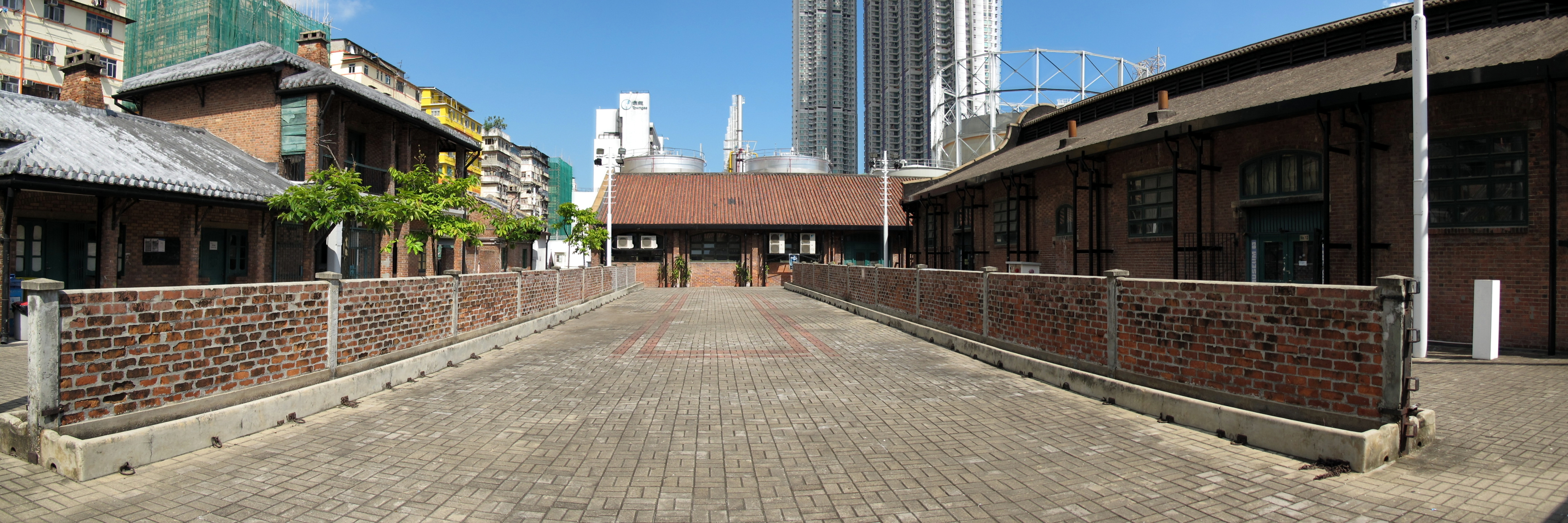 Cattle Depot Artist Village Pano 牛棚藝術村